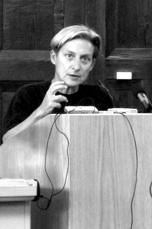 Judith Butler at a lecture at the University of Hamburg, April 2007.